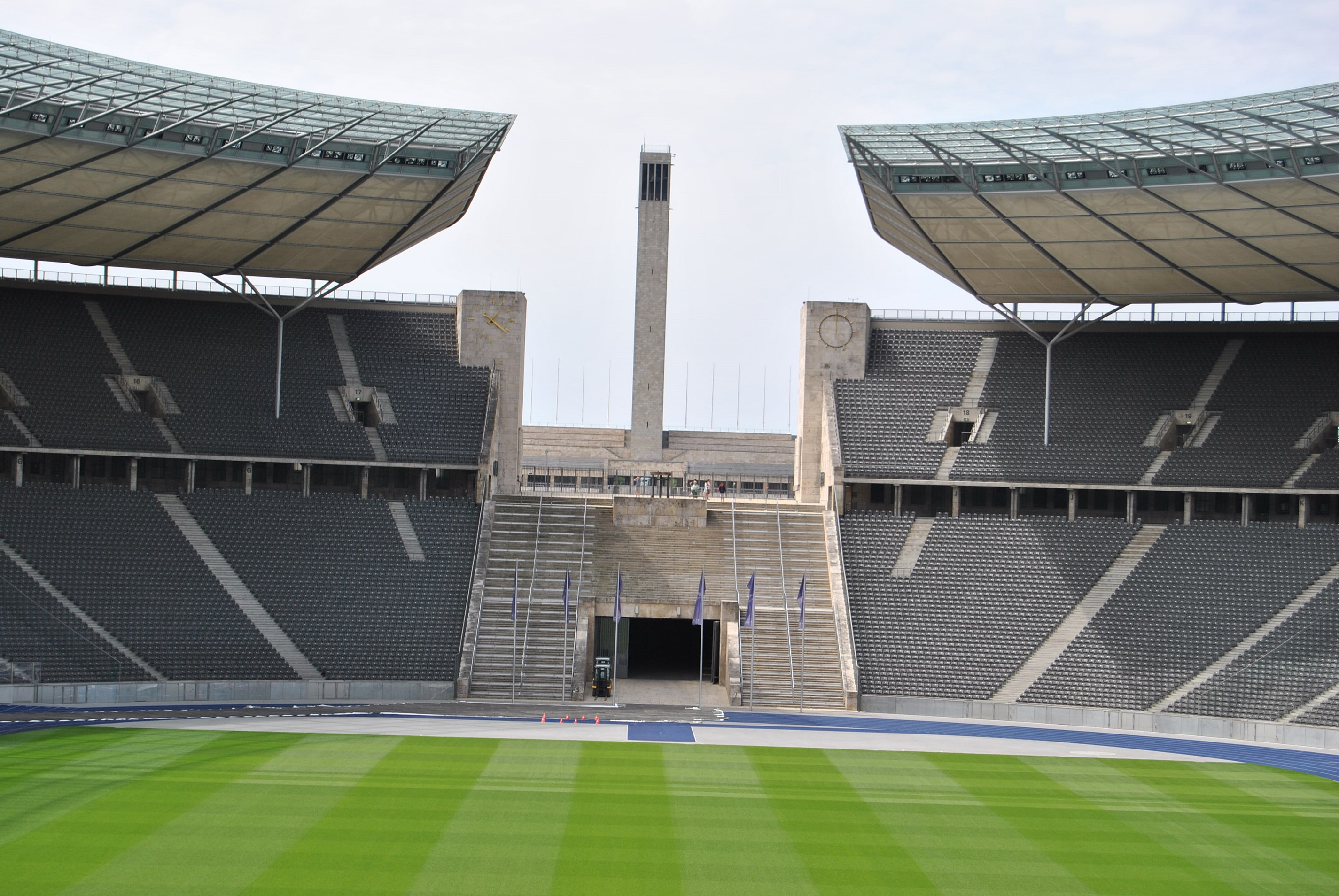 Berlin – Olympic Stadium This is a photograph of an architectural monument. This photograph was taken with a Nikon D3000